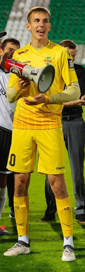 Aleksei Kenyaykin with FC Torpedo Moscow after the game against FC Yenisey Krasnoyarsk.